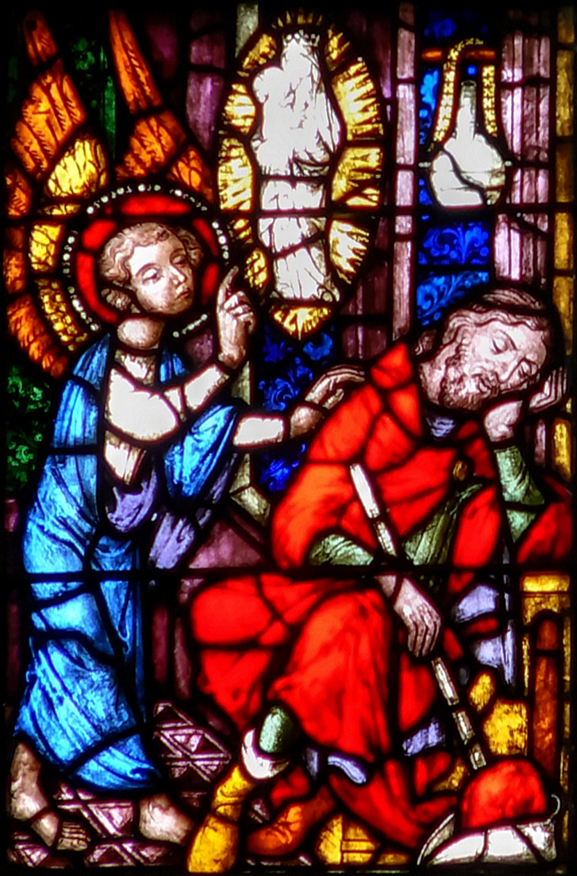 The Lutheran cathedral "Ulm Münster" of Ulm/Germany, Detail of the coloured window „Anna-Marienfenster“ - by Jakob Acker (ca. 1385) „Joseph's Dream“ (scene of the bible)